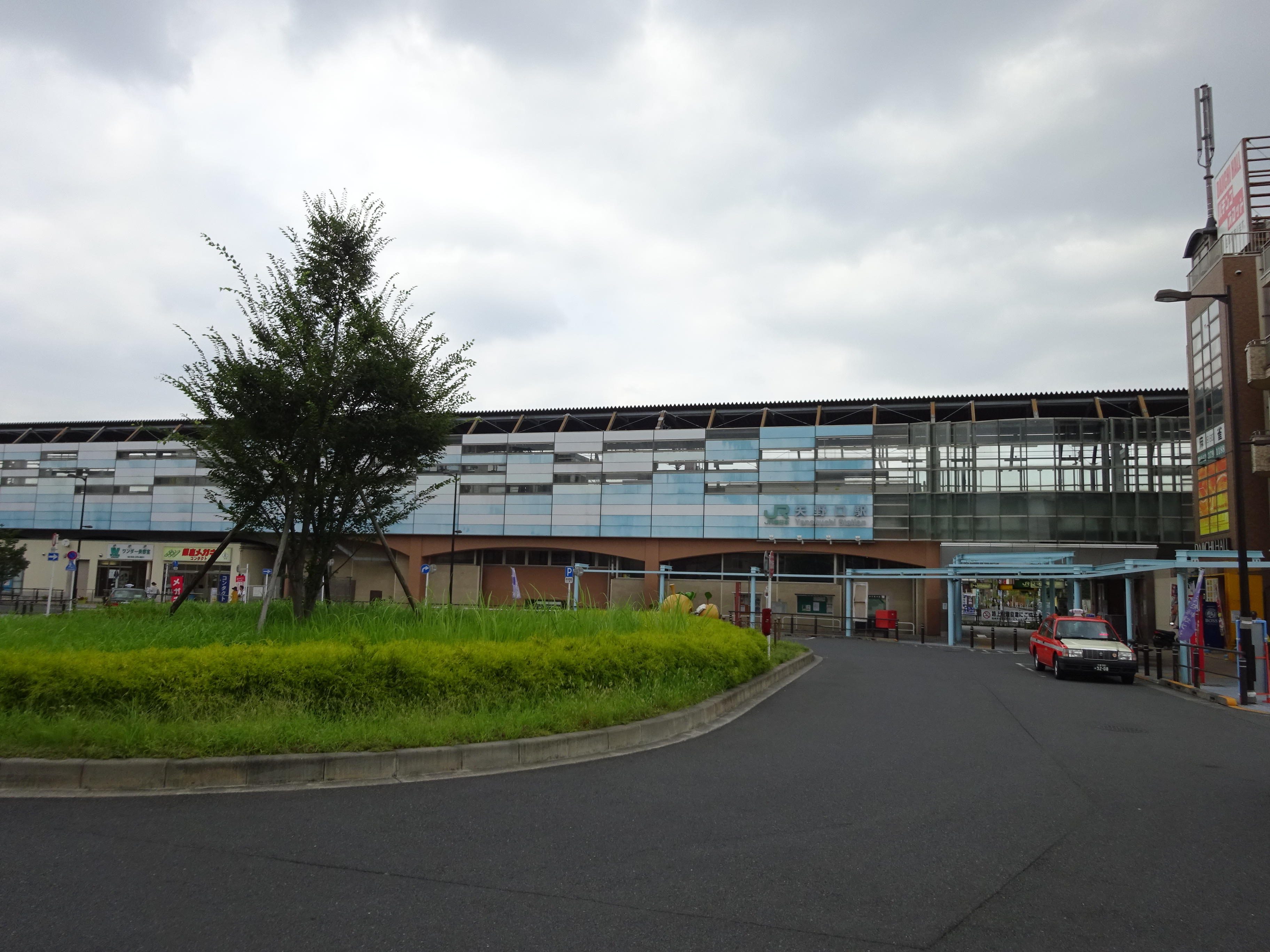 North Entrance of Yanokuchi Station